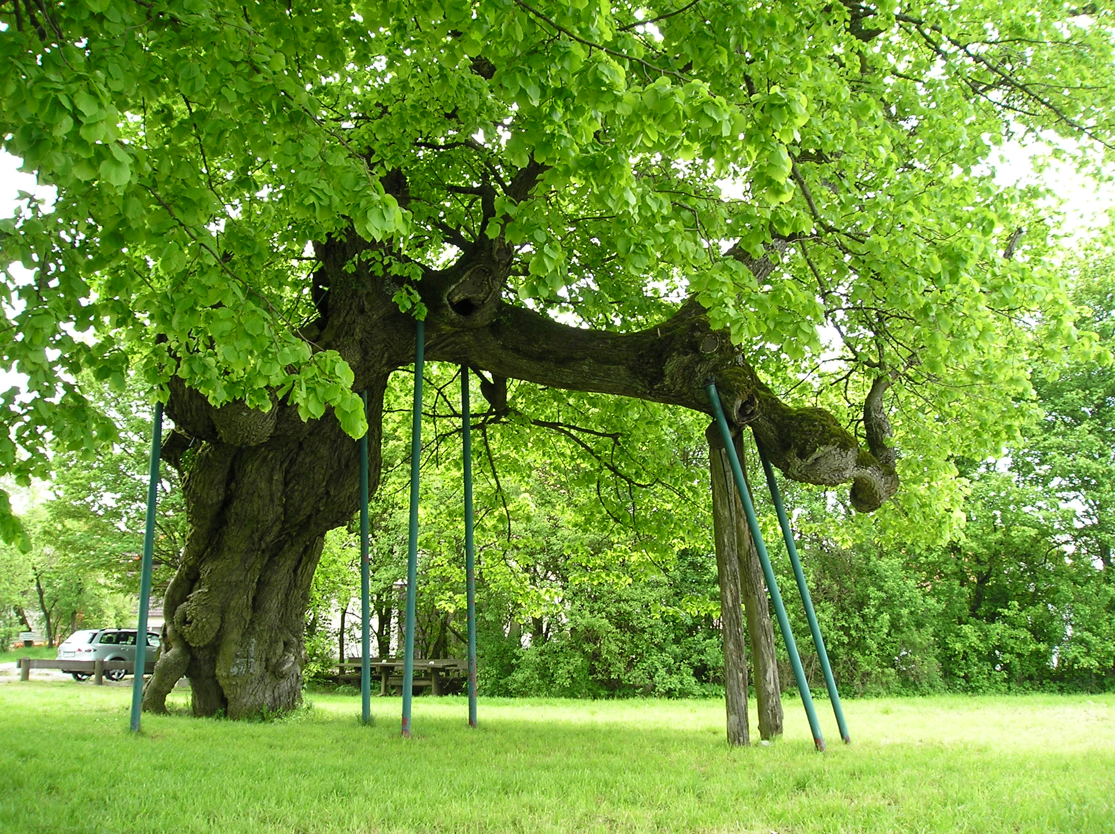 Old Kasberg lime tree (Kasberg is a small village near Gräfenberg, Germany). The tree is believed to be thousand years old. The trunk is mostly rotten so the tree isn't stable on its own.